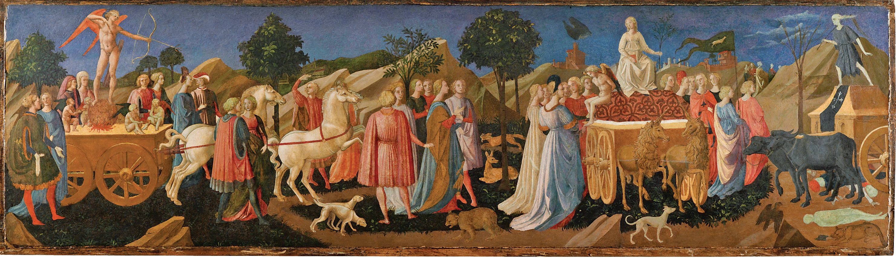 Triumphs of Love, Chastity, and Death